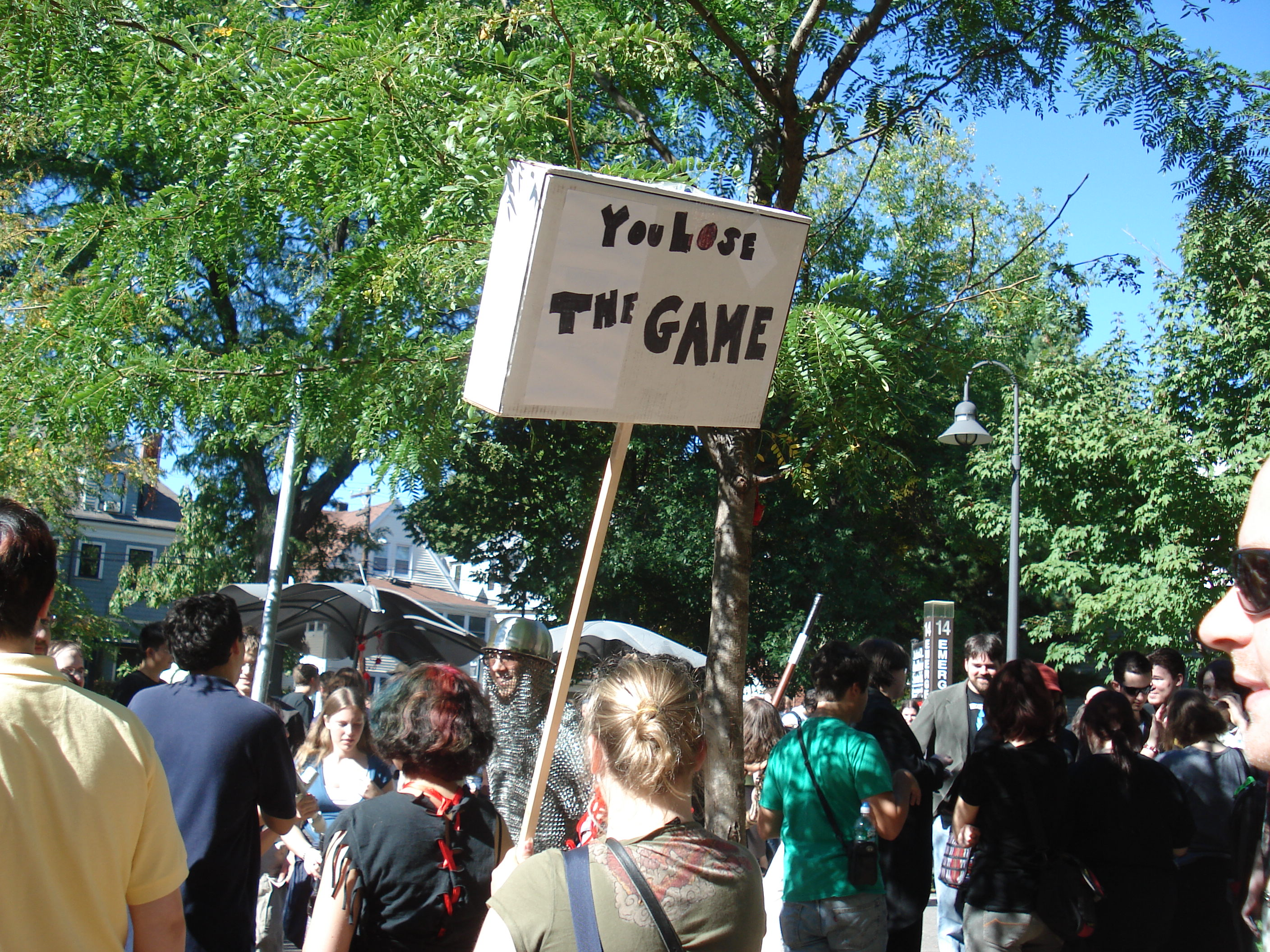 A girl holding a sign reading "You lose the game" (a reference to the mind game) at a meetup of fans of the webcomic xkcd in Cambridge, USA in 2007.